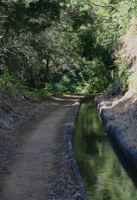 Levada at the western end of Madeira.